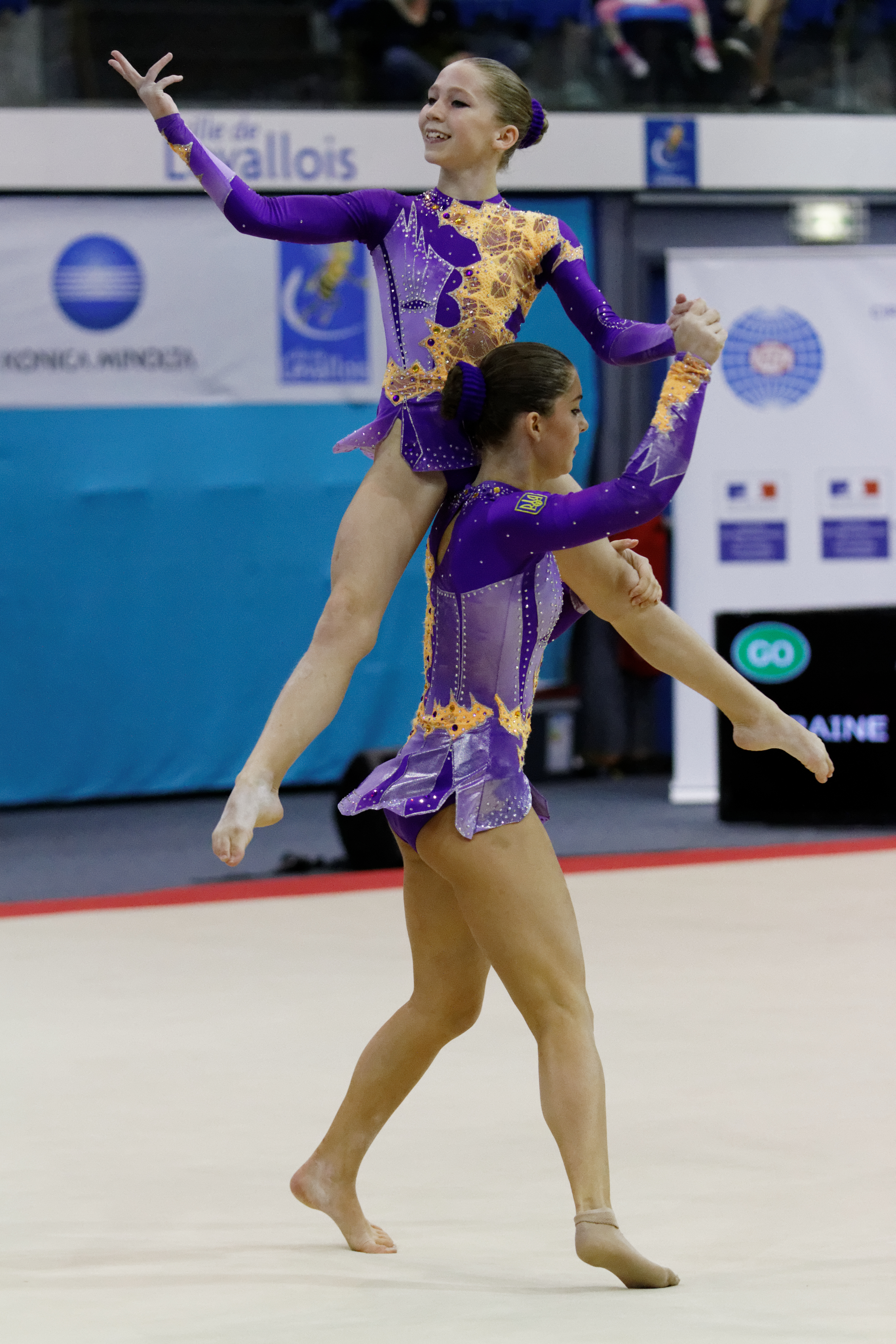 2014 Acrobatic Gymnastics World Championships, 10th-12 July, Levallois-Perret, France. Finals : women pair. Ukrainia.